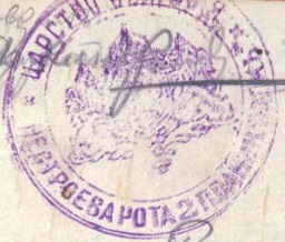 2_Mountain_Regiment_Seal